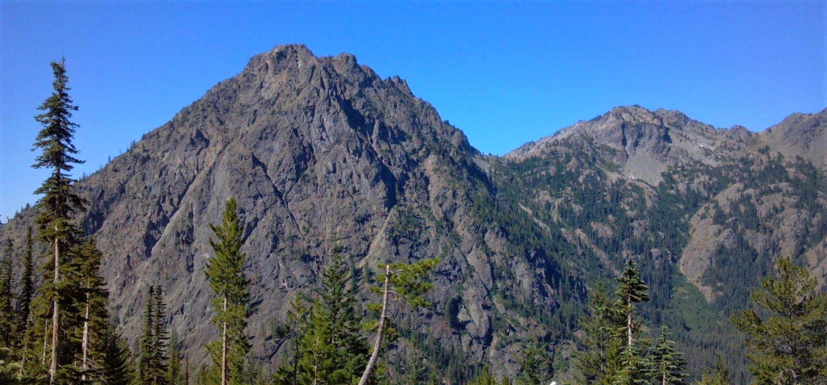 Esmeralda Peak, east aspect, from the Stuart Lake Trail.